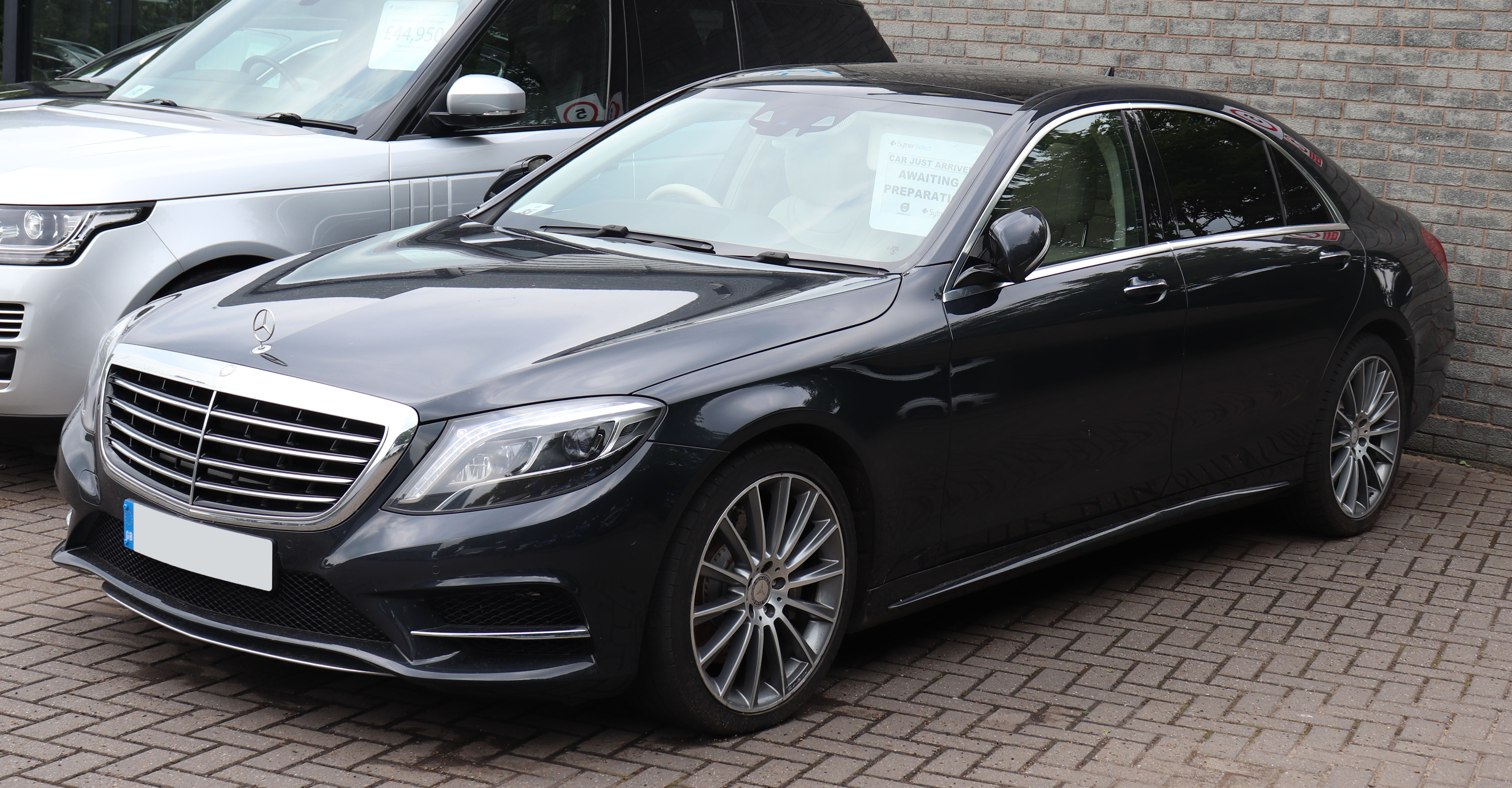 2015 Mercedes-Benz S400 HL AMG Line Auotmiatc 3.0 Taken in Syther Volvo Warwick, Leamington Spa